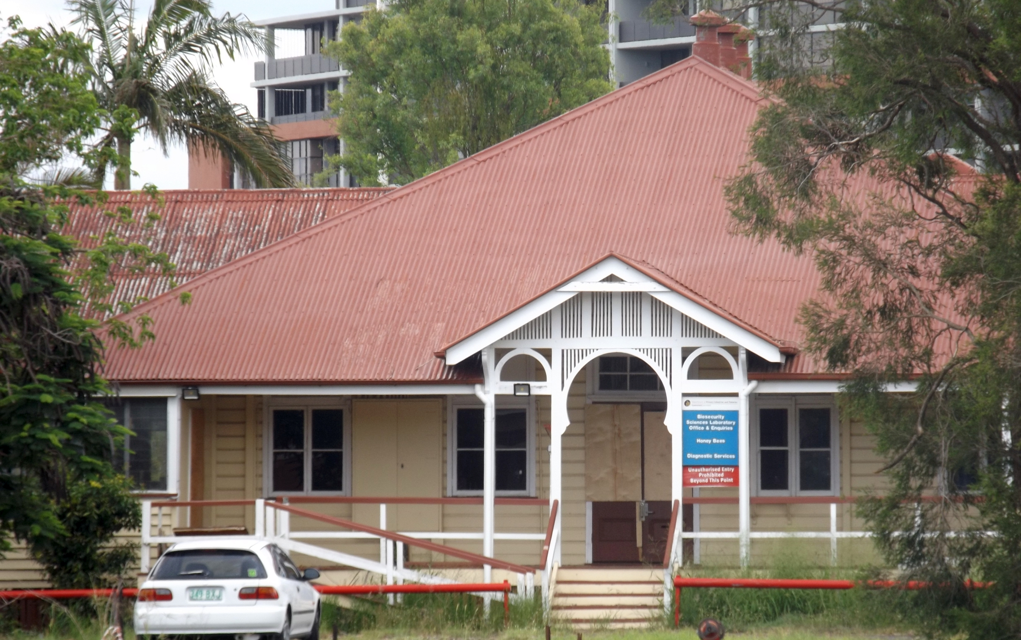 Photo of Animal Research Institute at Yeerongpilly, Brisbane, Queensland, Australia.